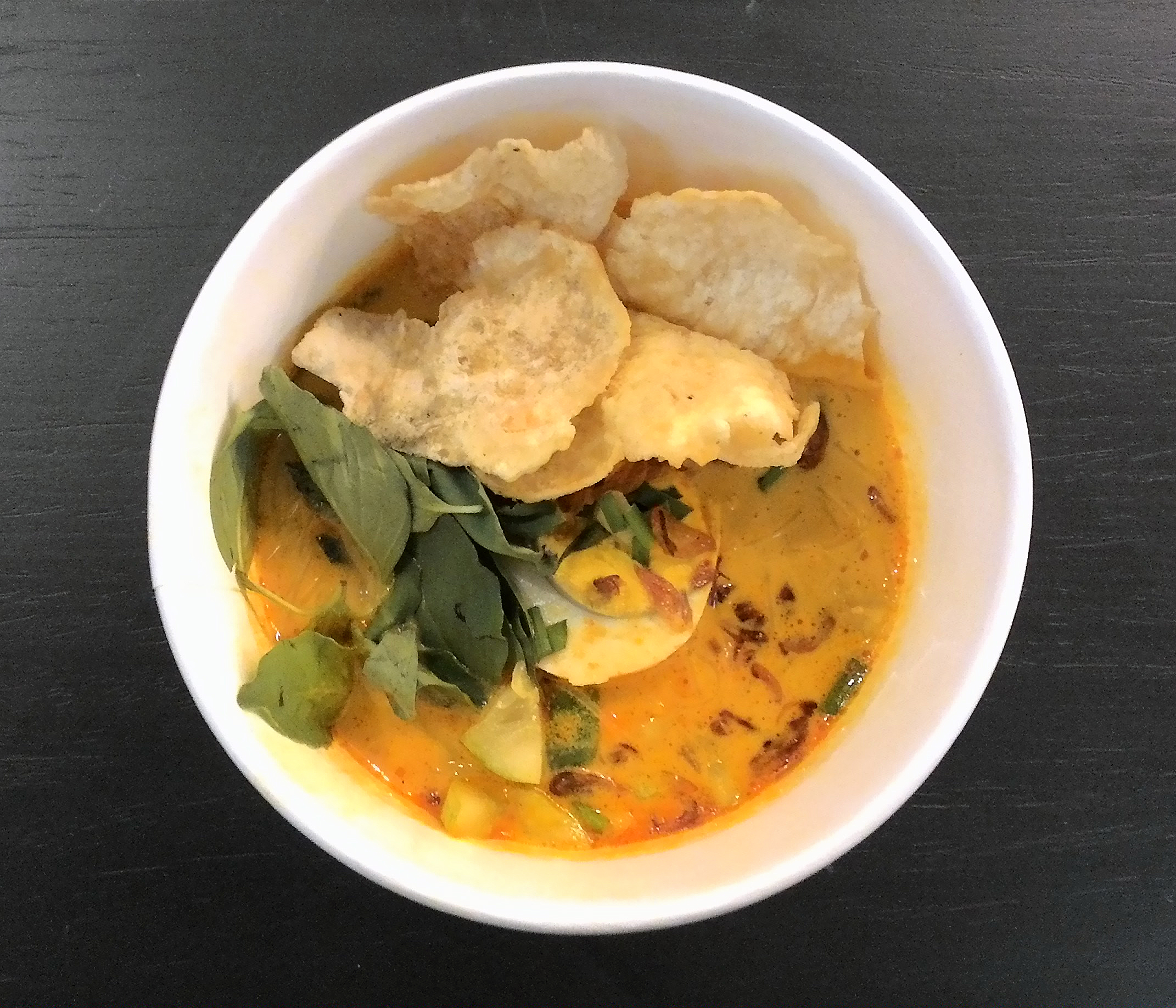 Laksa Betawi, Jakarta-style laksa served during Kampoeng Legenda Food Festival in Mal Ciputra, Jakarta, Indonesia. This chicken laksa with pieces of ketupat rice cake and rice vermicelli in spicy yellowish coconut milk soup, with lemon basil, boiled egg, fried shallot and emping cracker.